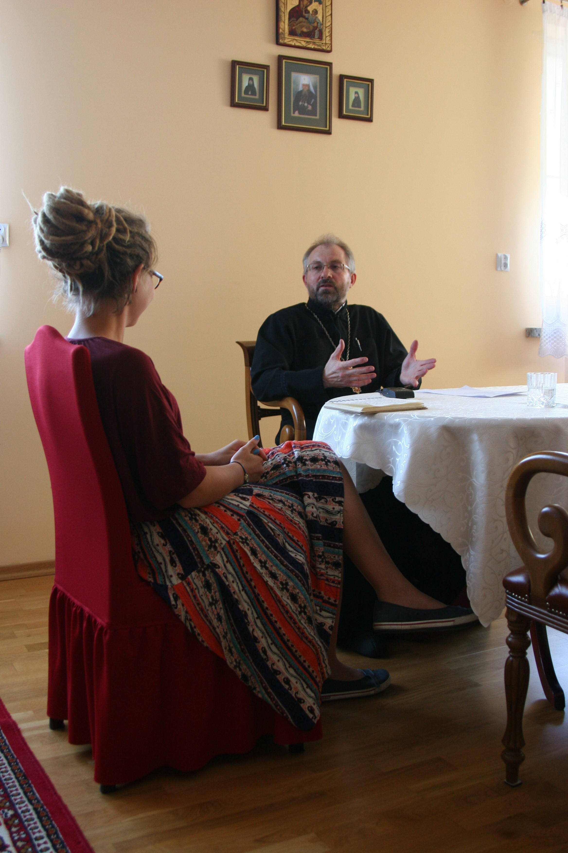 Ethnographic interview in Dubiny, A Year of Rituals with Wikipedia